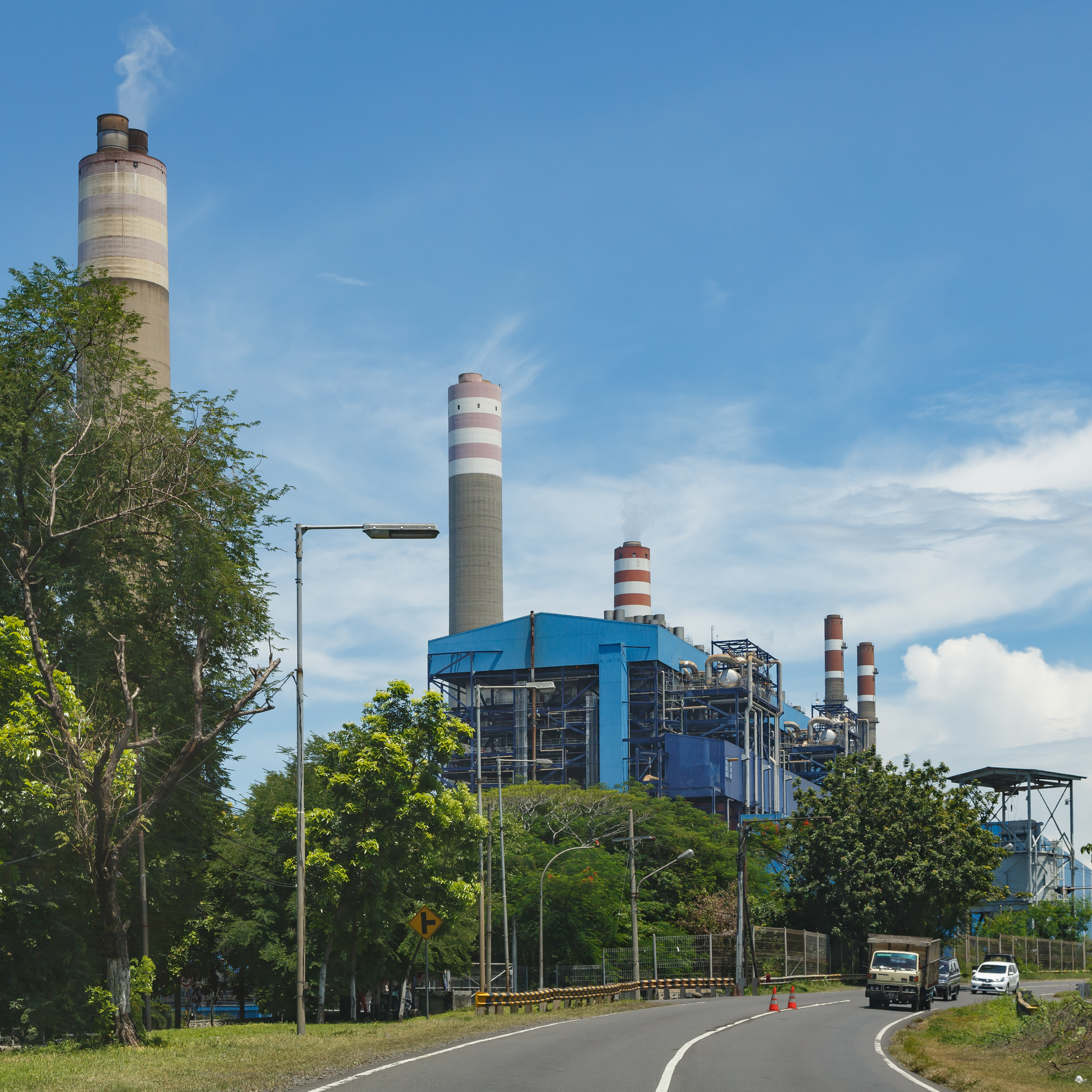 Paiton District, East Java, Indonesia: Funnels of the Paiton thermal power plant